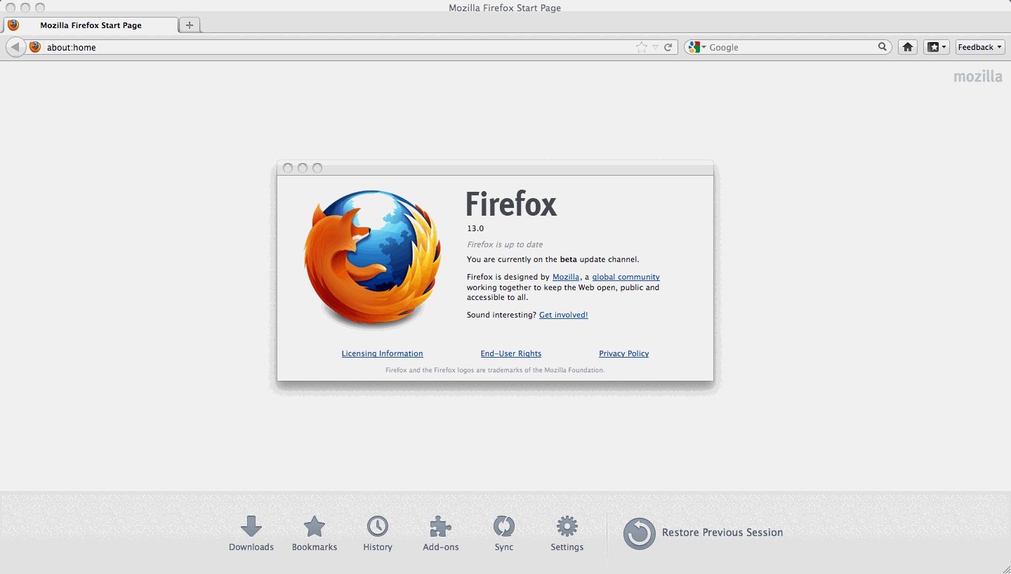 Start screen of Mozilla Firefox version 13 beta